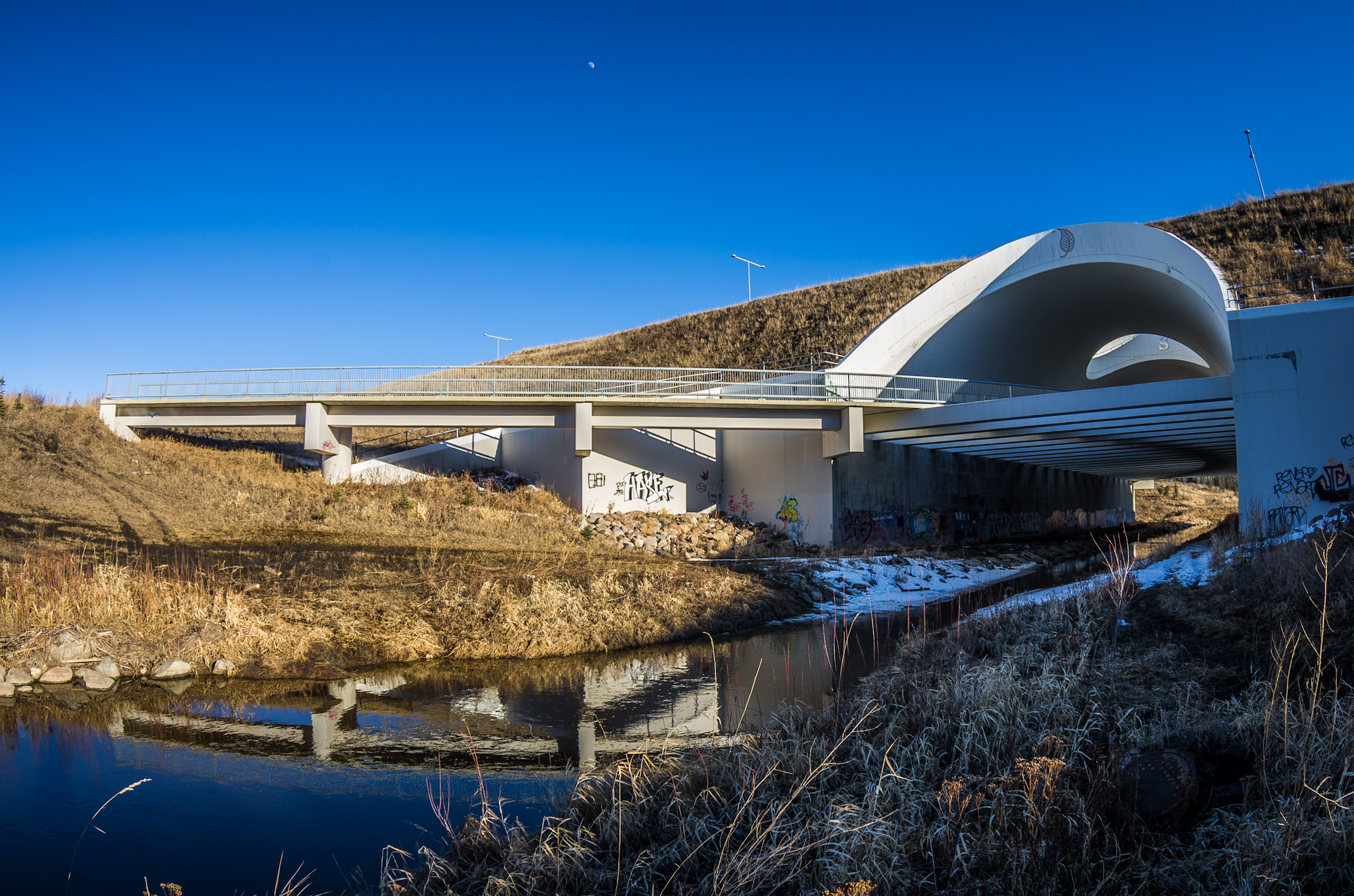 Anthony Henday Drive bridges over Whitemud Creek in southwest Edmonton, Alberta.